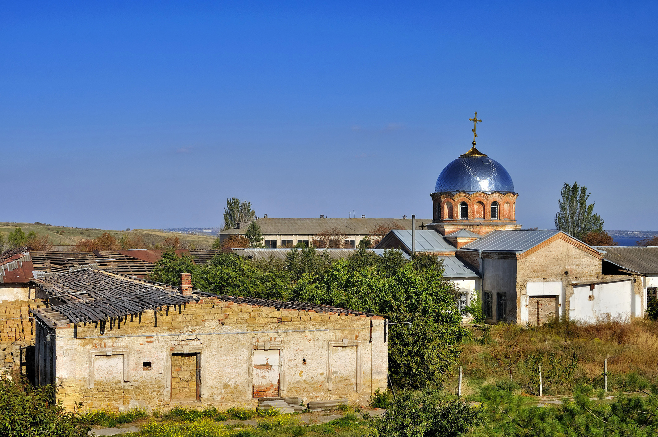 St Grygorye-Byzyukov monastery